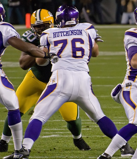 Steve Hutchinson blocks B.J. Raji in a November 14, 2011 game between the Minnesota Vikings and the Green Bay Packers.